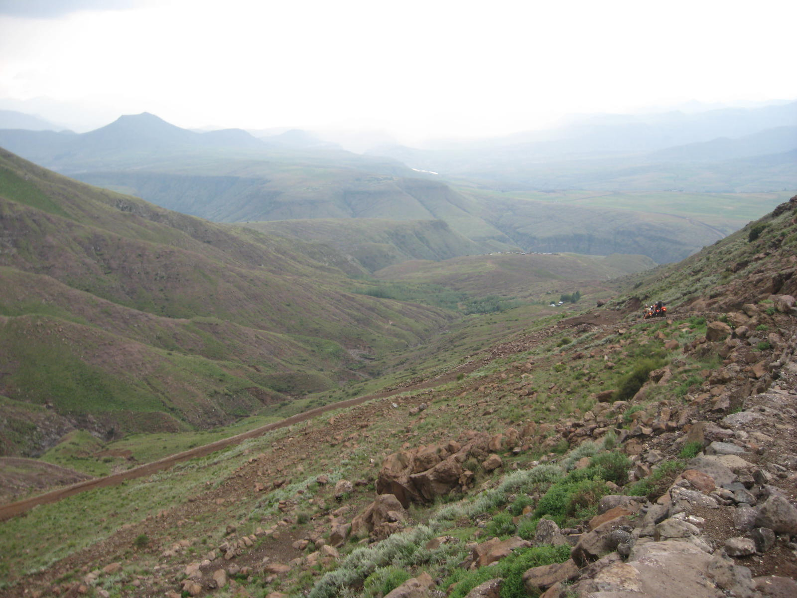 Trip to Mt Moroosi